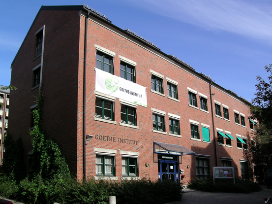 Goethe-Institut, Grønland 16, 0188 Oslo